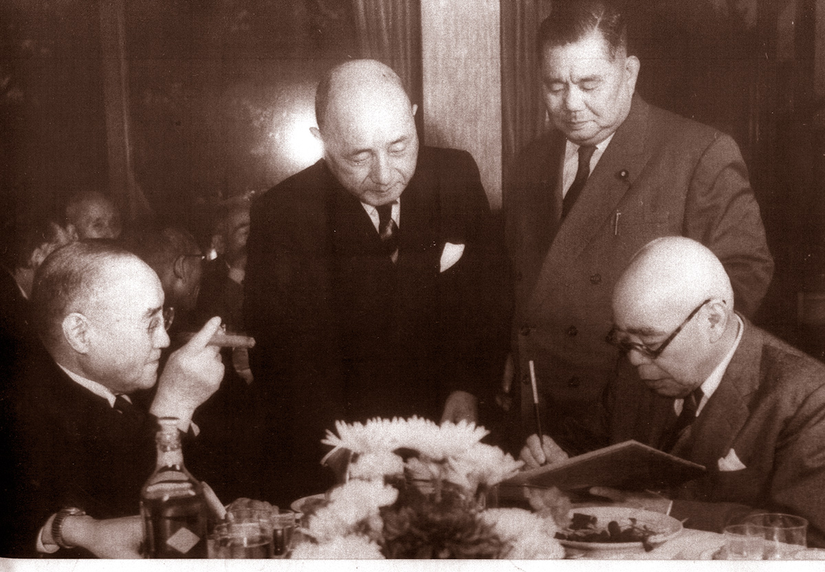 Takashi Ueno, Owner of Daieido bakery (center) . Along with Shigeru Yoshida, Yoshinori Kaya ando Toko Kon 1960